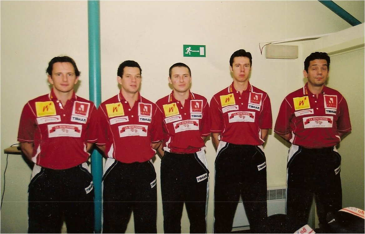 table tennis team - Vilette Charleroi